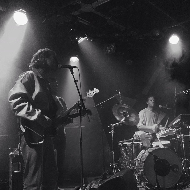 Choir of Young Believers performing at Nordic Delight Festival on May 15, 2015 at EKKO in Utrecht